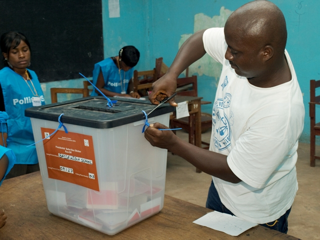 Following 14 years of war, Liberia has held two peaceful, democratic elections. (Justin Prud'homme/USAID)